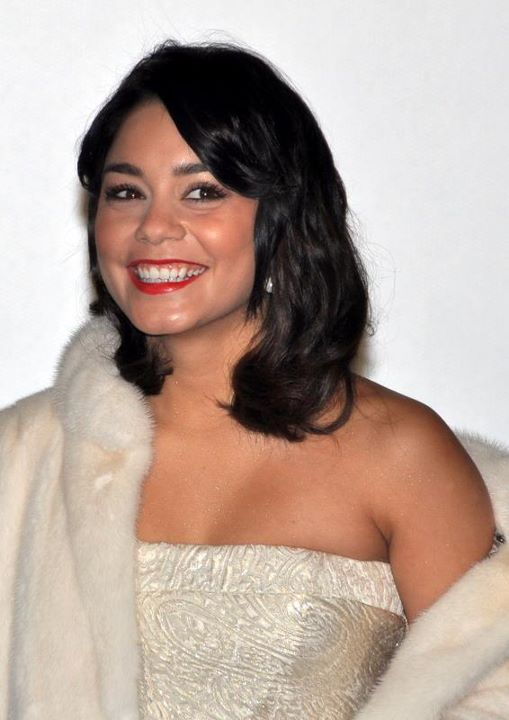 Vanessa Hudgens in Paris at the French premiere of Journey 2 : The Mysterious island.